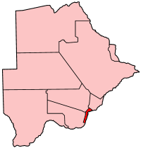 Map of Botswana showing South-East district.